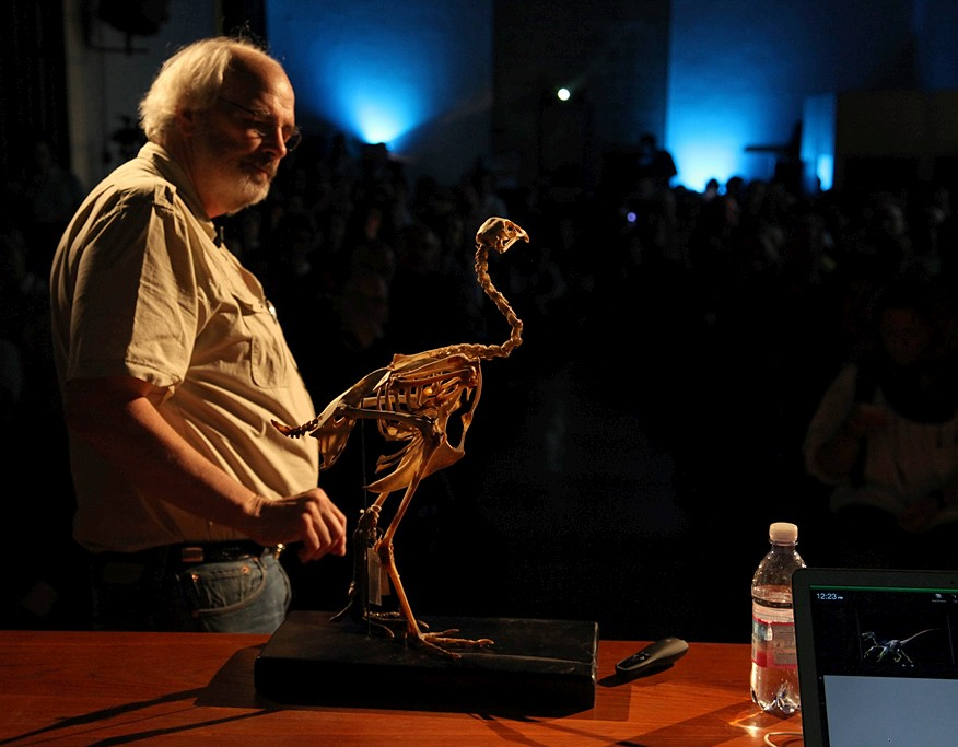 Event: Meet the Media Guru | Jack Horner Date: 29th May 2012 Venue: Museo di Storia Naturale, Milan, Italy Twitter: @mmguru / #MMGHorner Photo by Paolo Sacchi